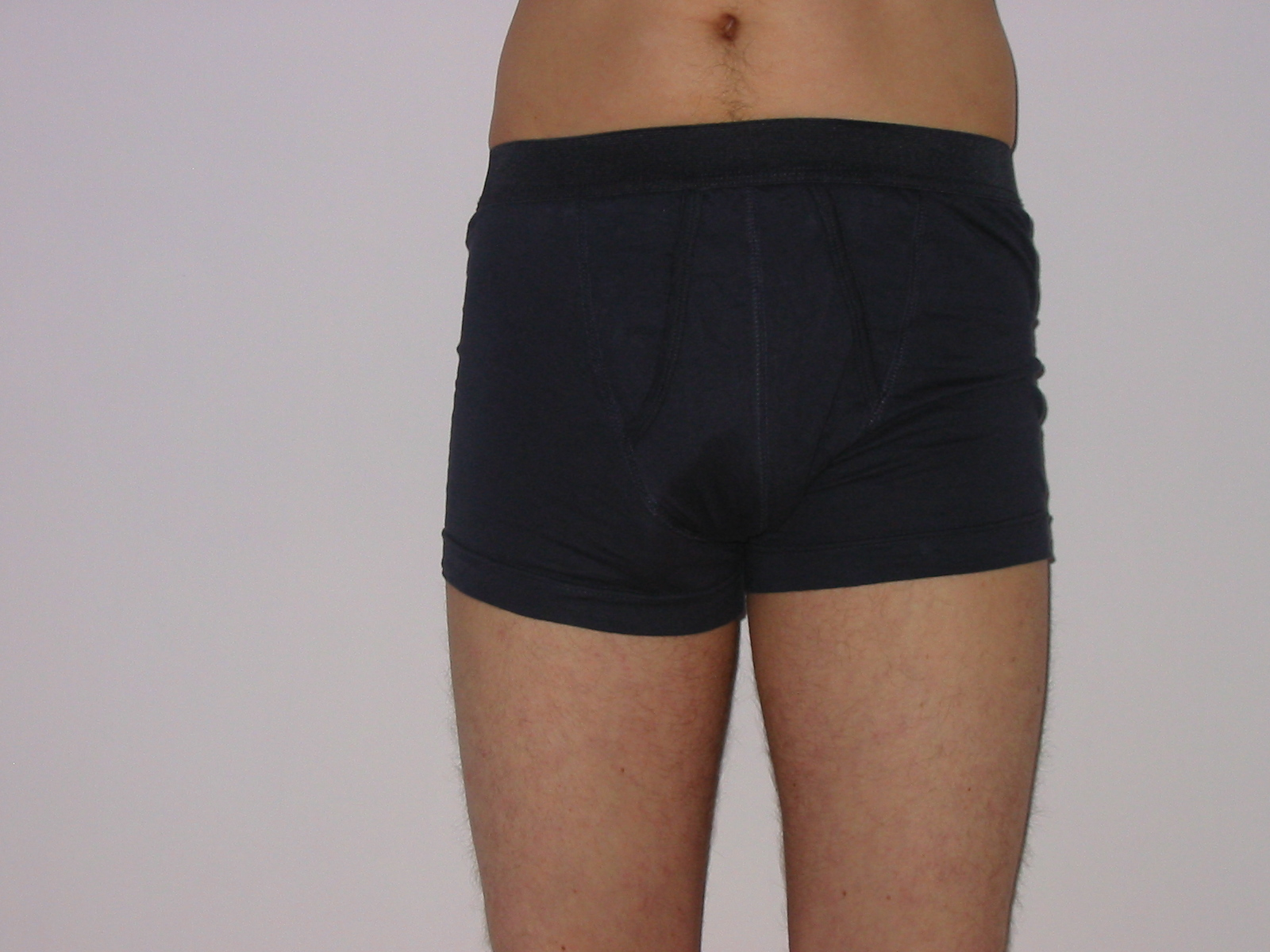 Man wearing trunks.